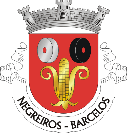 Crest of Negreiros, a parish in the municipality of Barcelos (Portugal)